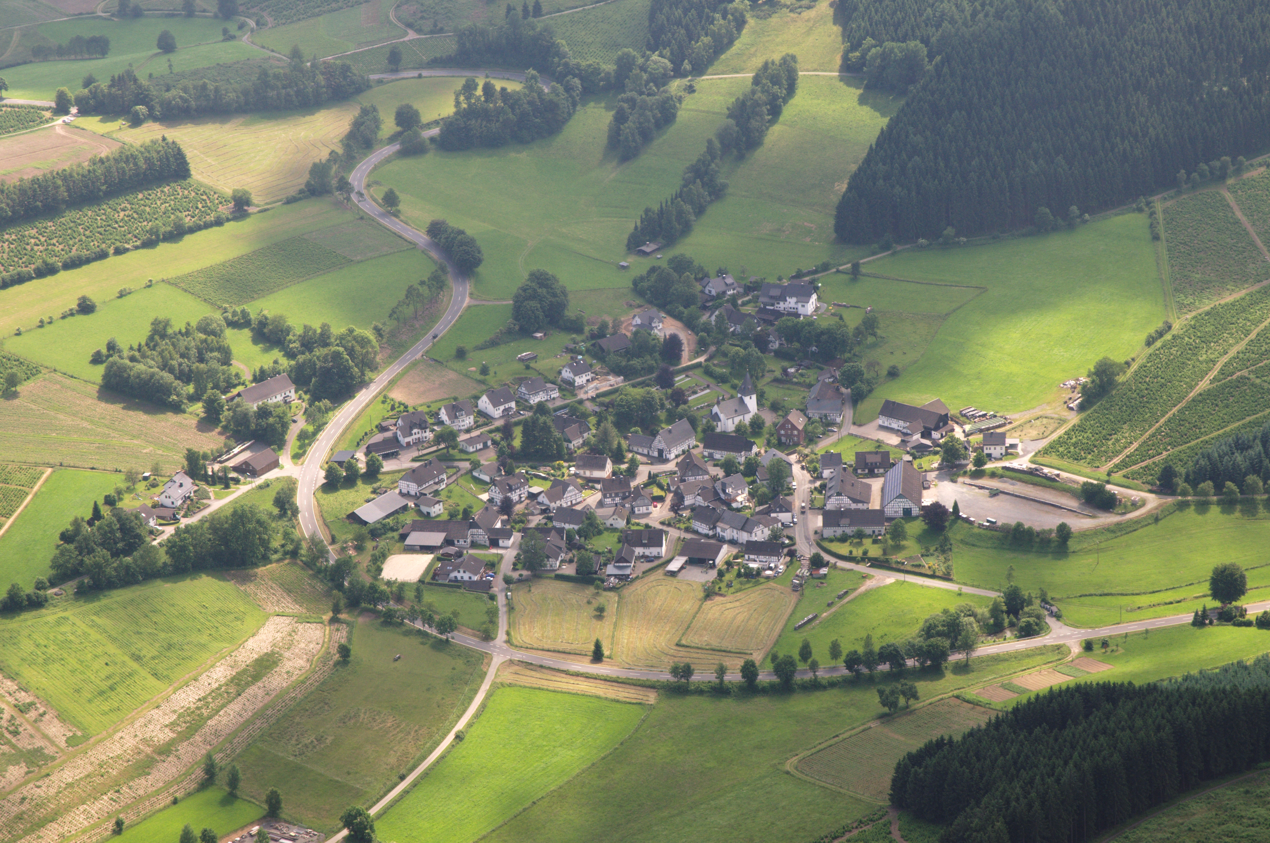 Fotoflug Sauerland-Ost: Schliprüthen, Berg Birkenhahn The making of this document was supported by the Community-Budget of Wikimedia Germany.